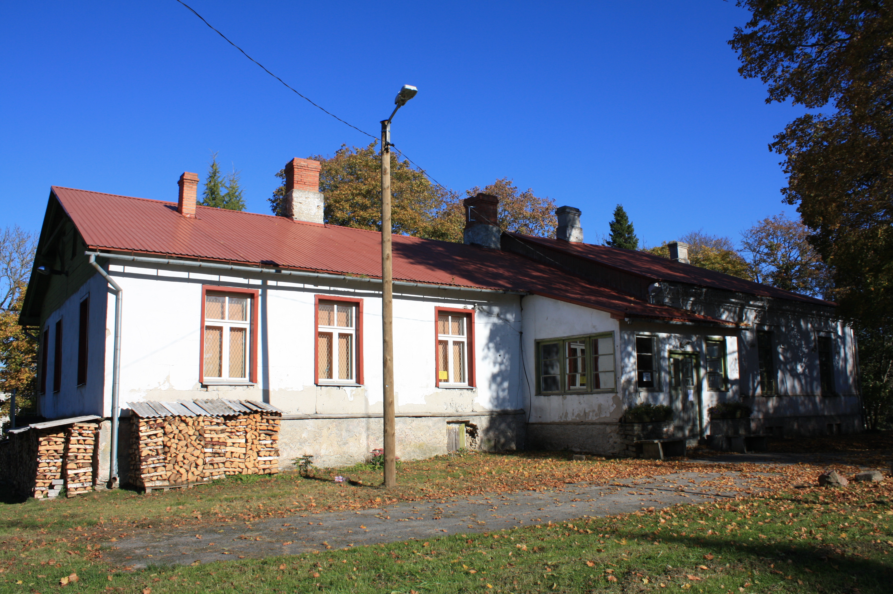 Hüüru manor house